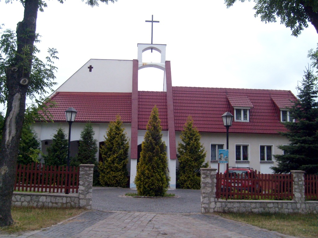 The church in Lubostroń, Poland.